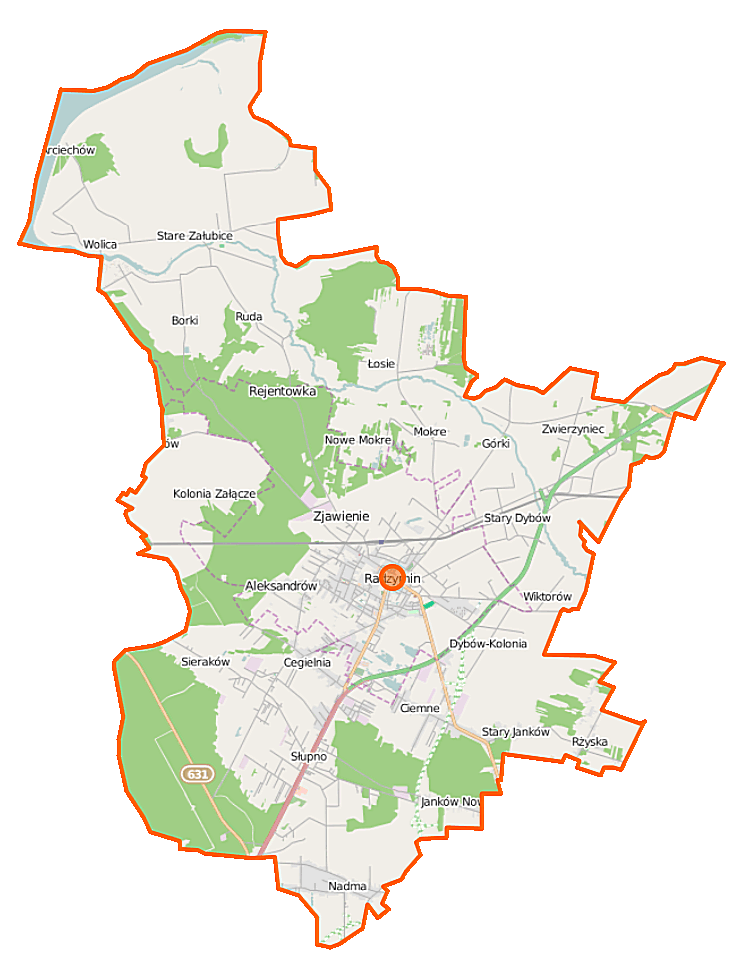 Map of Gmina Radzymin, Poland This map of Radzymin (gmina) was created from OpenStreetMap project data, collected by the community. This map may be incomplete, and may contain errors. Don't rely solely on it for navigation. Border coordinates52.524621.0622←↕→21.288852.3460